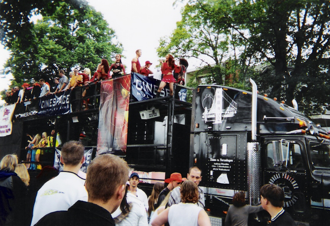 Vision Parade 2004